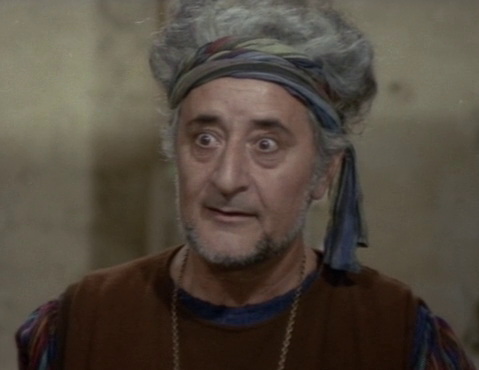 screen from the Italian film La calandria (1972)